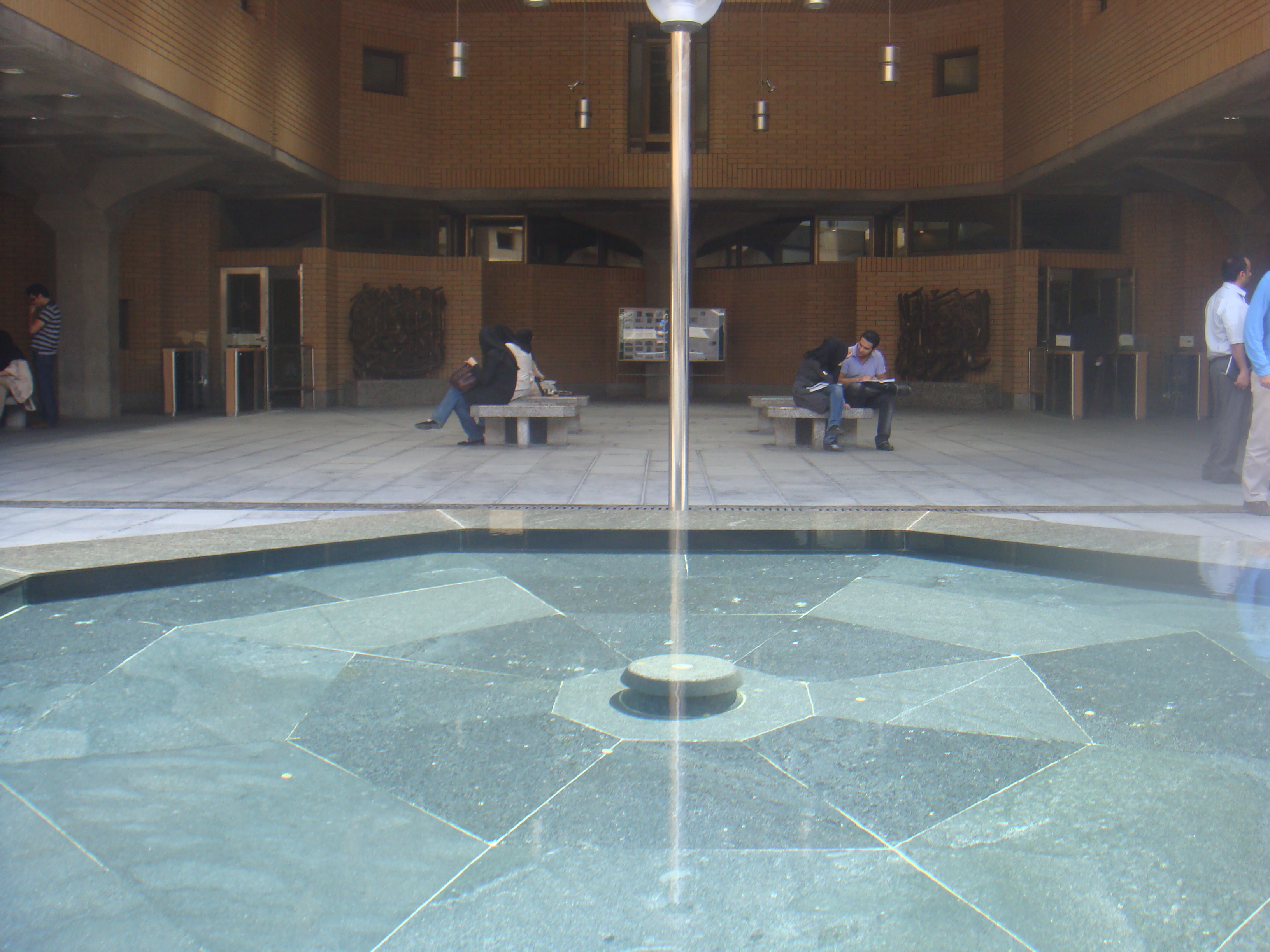 Atrium of National Library (Tehran, Iran)